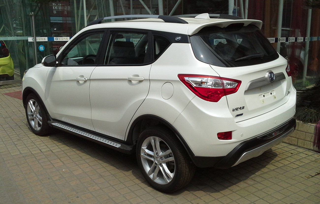 Chang'an CS35 photographed in Chengdu, Sichuan province, China.